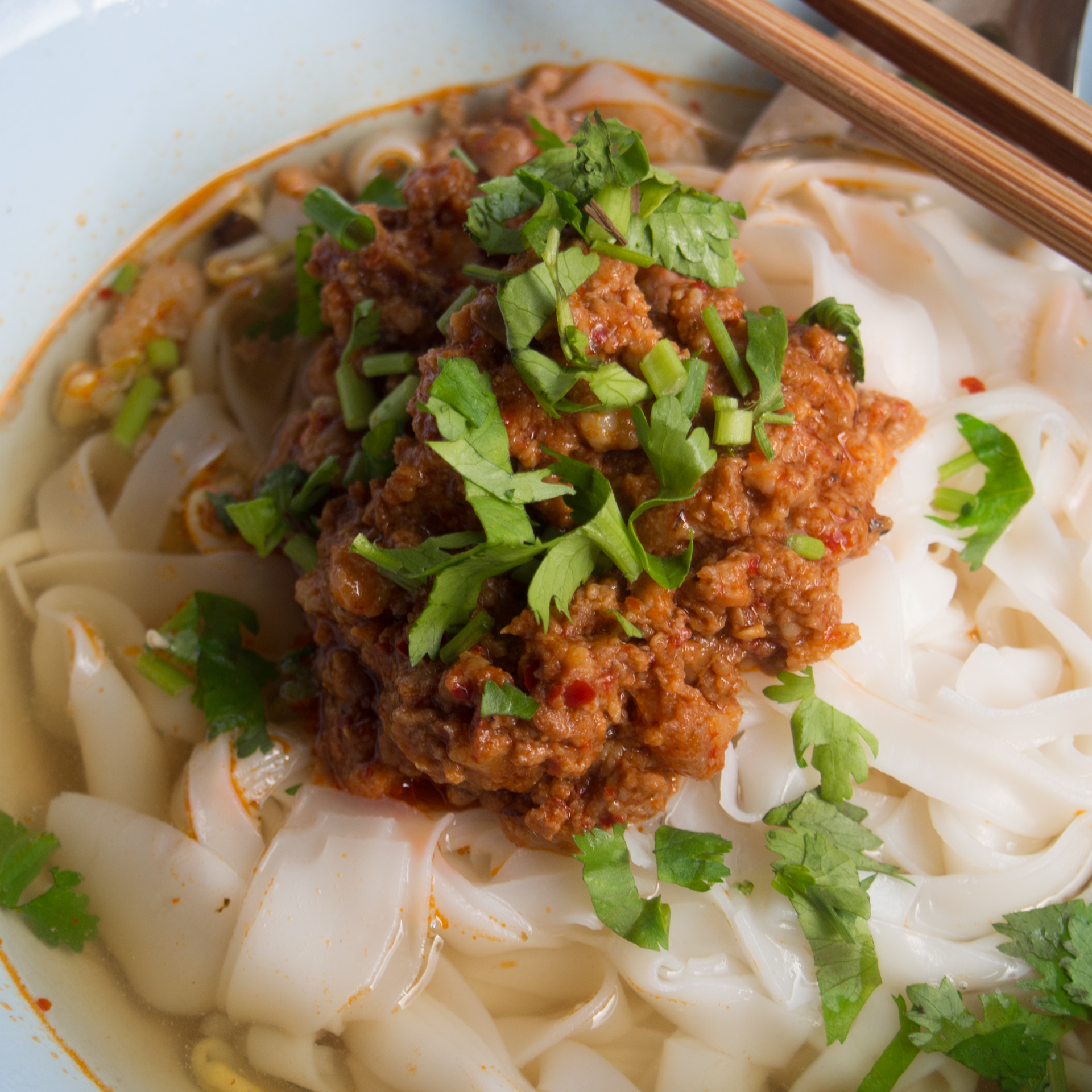 Khao soi nam na (its name in Chiang Rai province; Thai script: ข้าวซอยน้ำหน้า) or khao soi Mae Sai (its name in Chiang Mai) or kuaitiao nam na (its name in certain parts of Chiang Rai province) is a noodle soup of wide rice noodles (sen yai) and mung bean sprouts, served in a light pork broth together with a dollop of nam phrik ong (a mild tasting minced pork and tomato chilli paste) on top. This image was made in Chiang Saen.